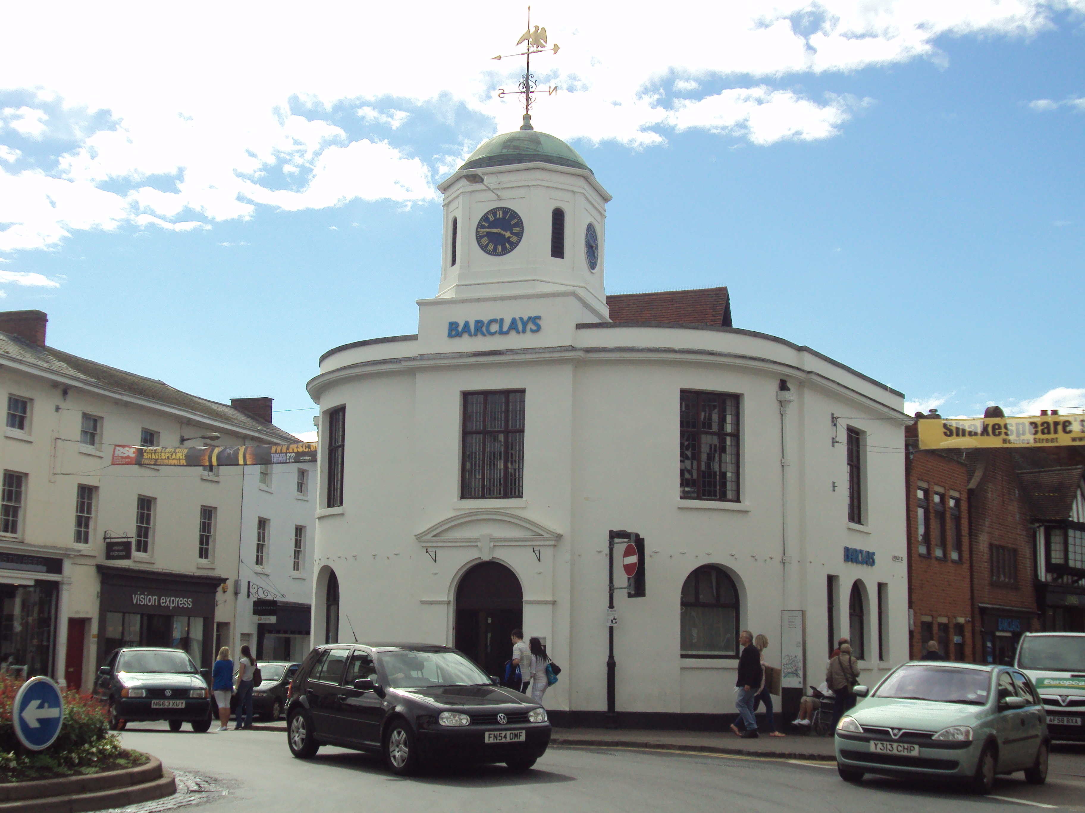 Barclays bank, Market Cross, Bridge Street, Stratford-Upon-Avon, England.